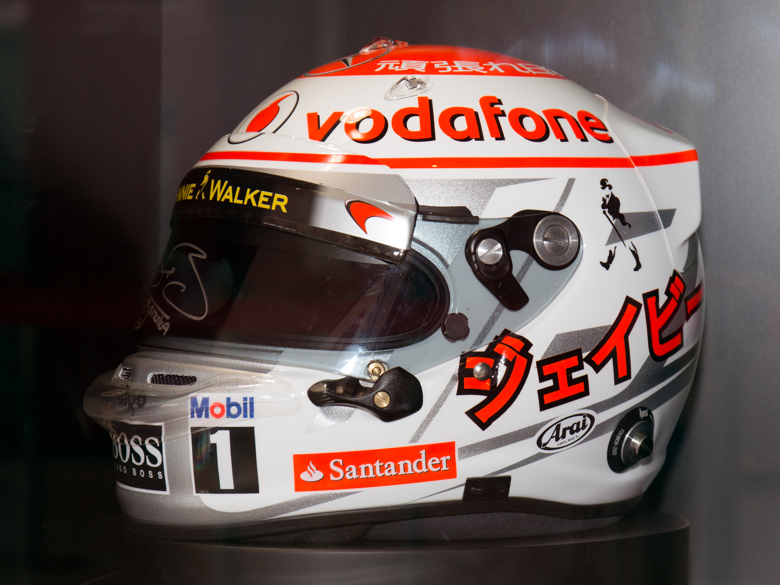 Jenson Button's 2011 Japanese GP helmet